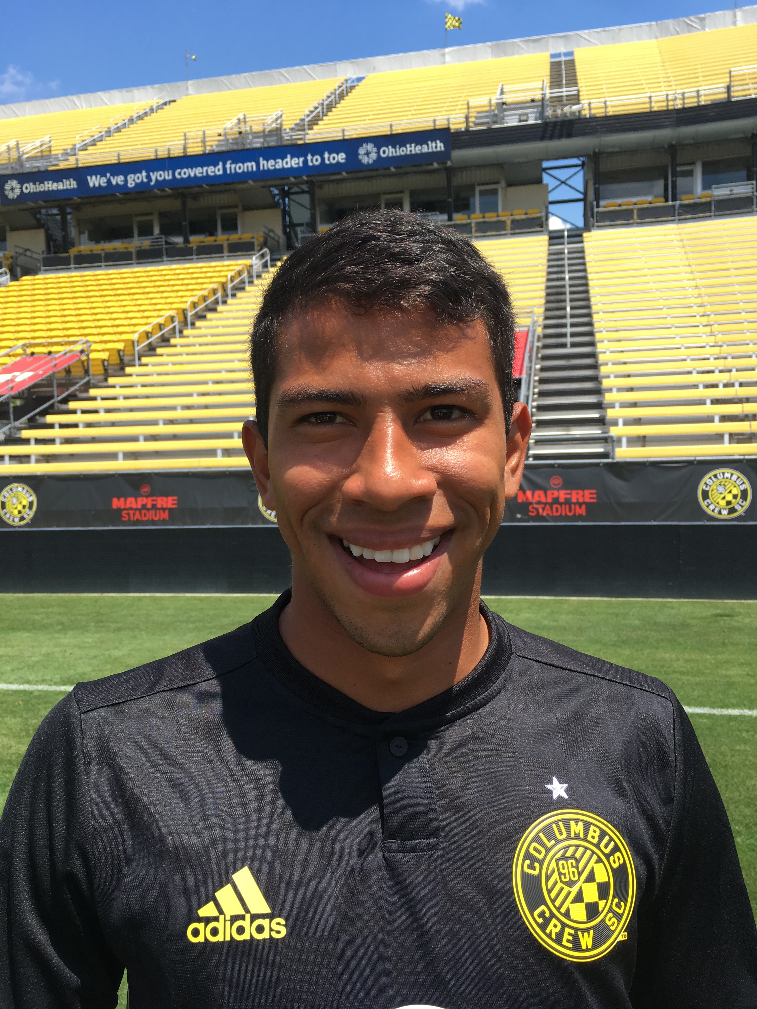 Picture of Eduardo Sosa at a Columbus Crew SC Meet the Team event in 2018.